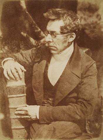 Abraham Capadose by David Octavius Hill.